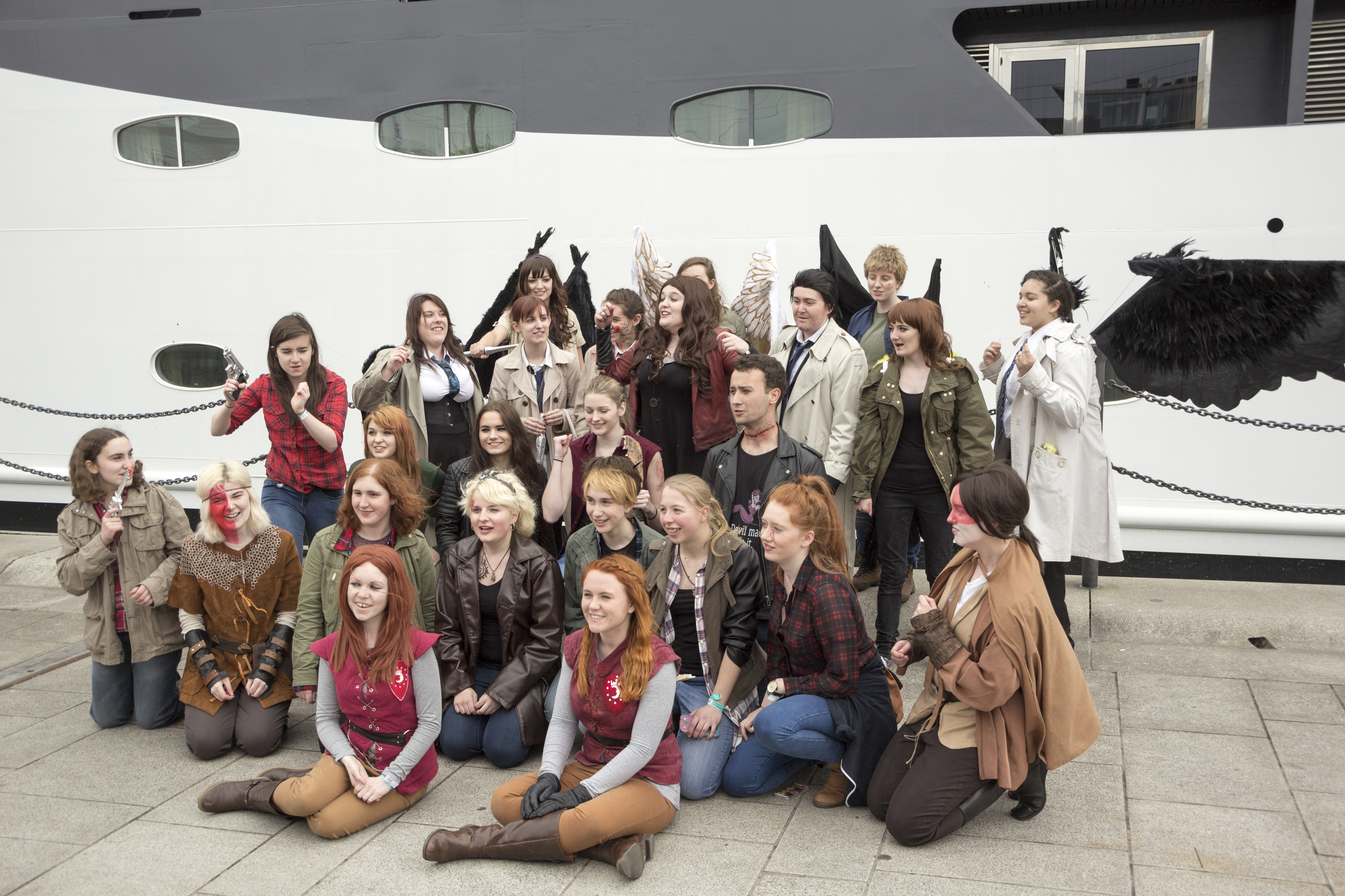 MCM London Comic Con May 2015